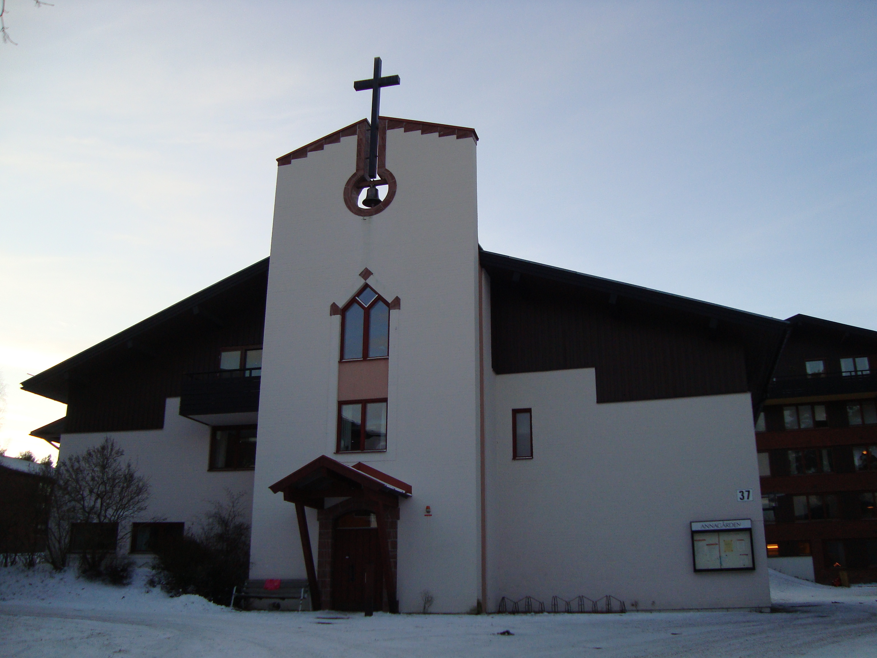 St. Anna's chapel, parish of Stora Kopparberg, Falun, Sweden